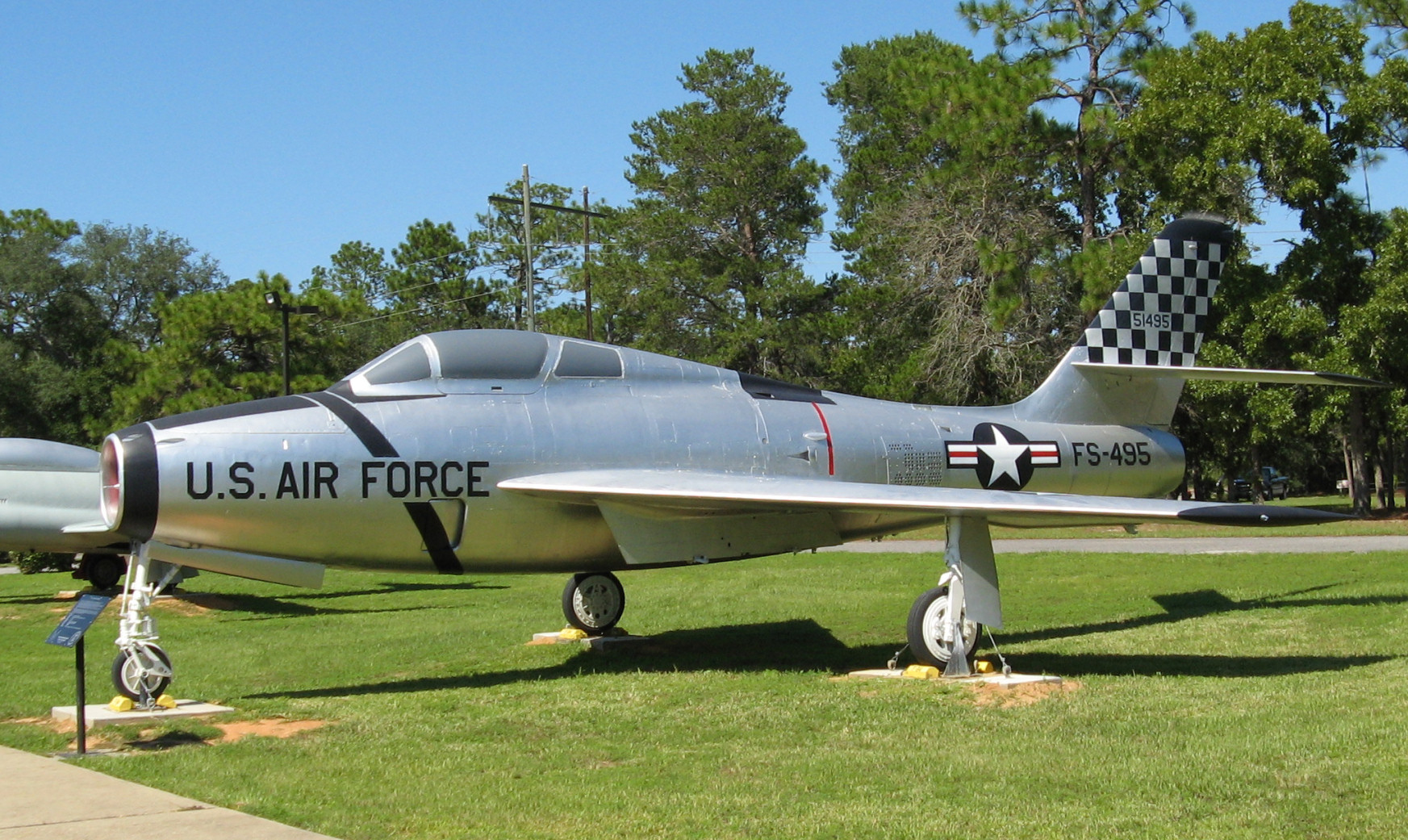 Republic F-84F Thunderstreak, USAF Armaments Museum, Eglin AFB, Florida